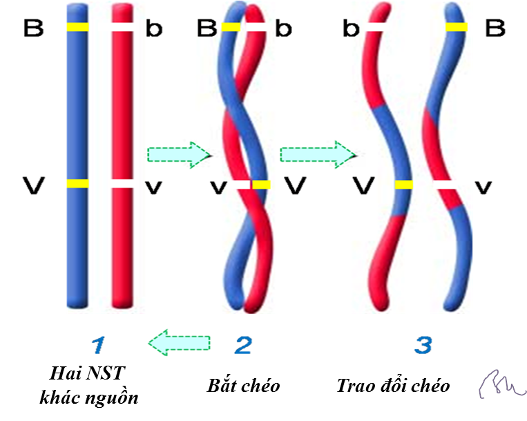 NST màu xanh từ "mẹ", màu đỏ từ "bố". Sau bắt chéo (2) có thể thôi tiếp hợp, trở lại trạng thái ban đầu (1)